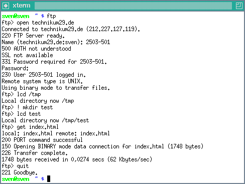 This screenshot shows ftp, the terminal (i.e. command-line) program in an xterm ( X Window System, free software), the window manager is twm. This ftp-clone is from the Linux NetKit, see ftp://ftp.uk.linux.org/pub/linux/Networking/netkit/